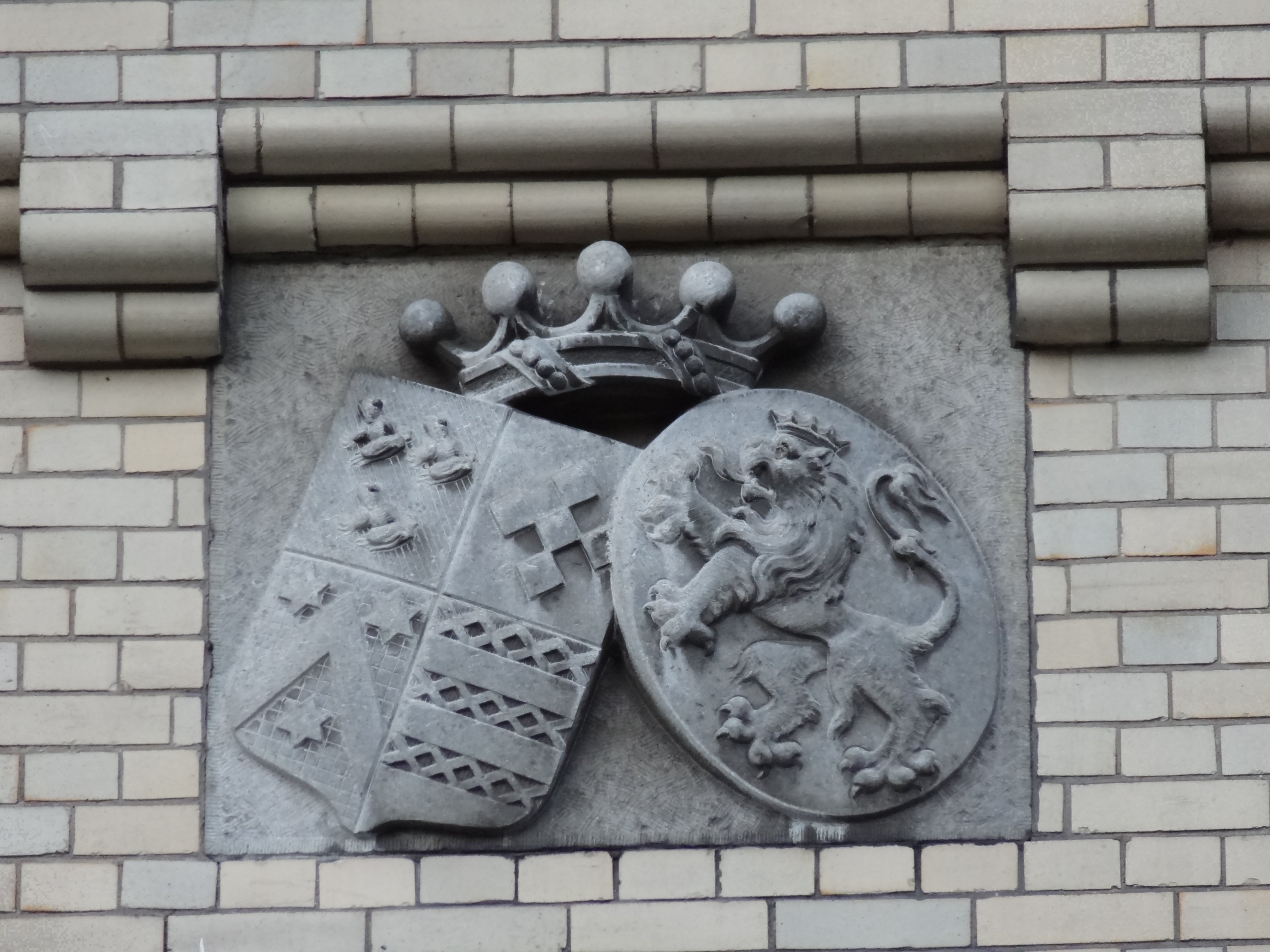 Alliance coat of arms of the Van Rijckevorsel van Kessel and Van Nispen tot Pannerden families at the facade of 't Slotje at the Neerbosscheweg in Nijmegen, The Netherlands